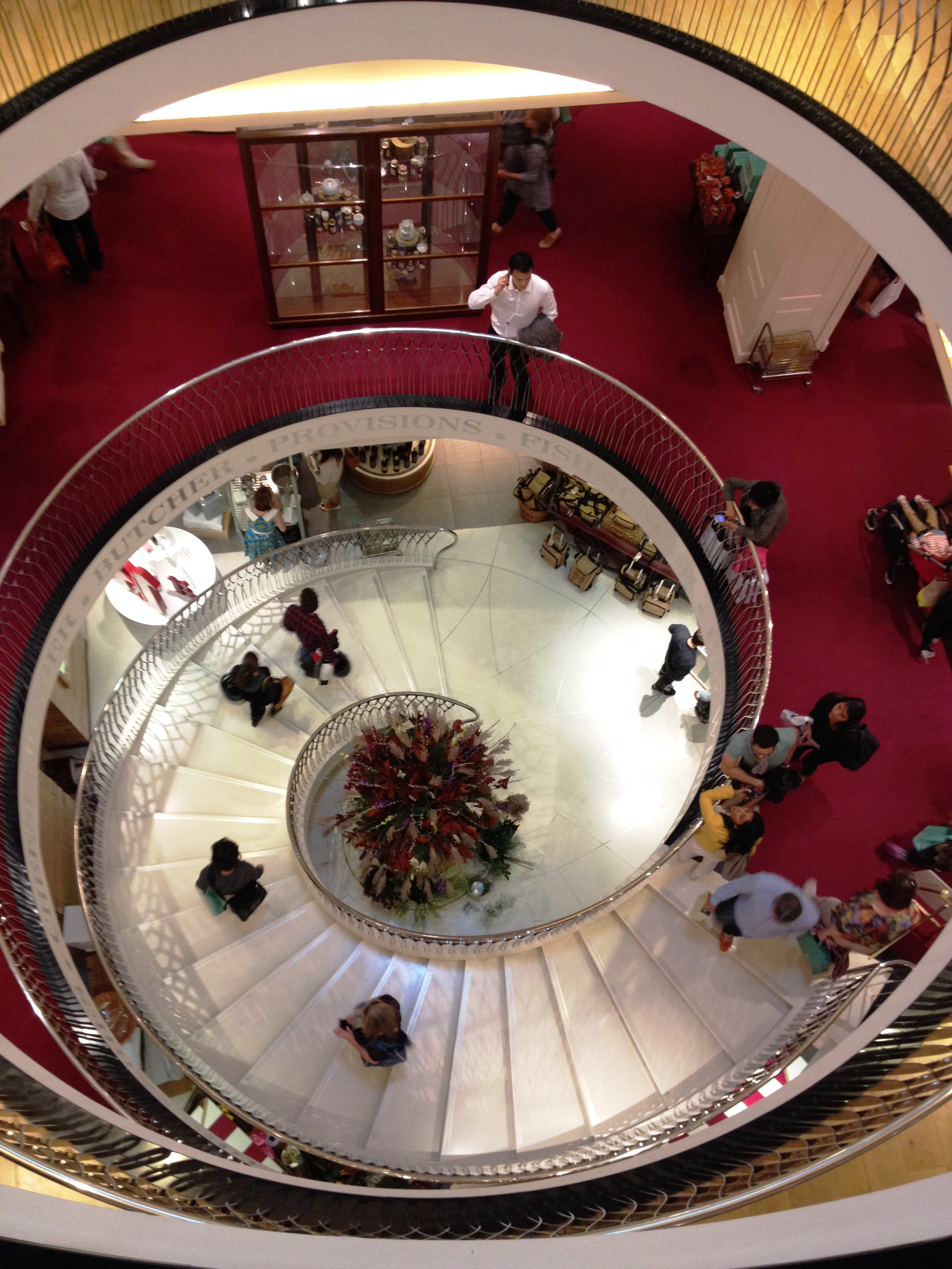 Staircase at Fortnum & Mason on 181 Piccadilly in London.